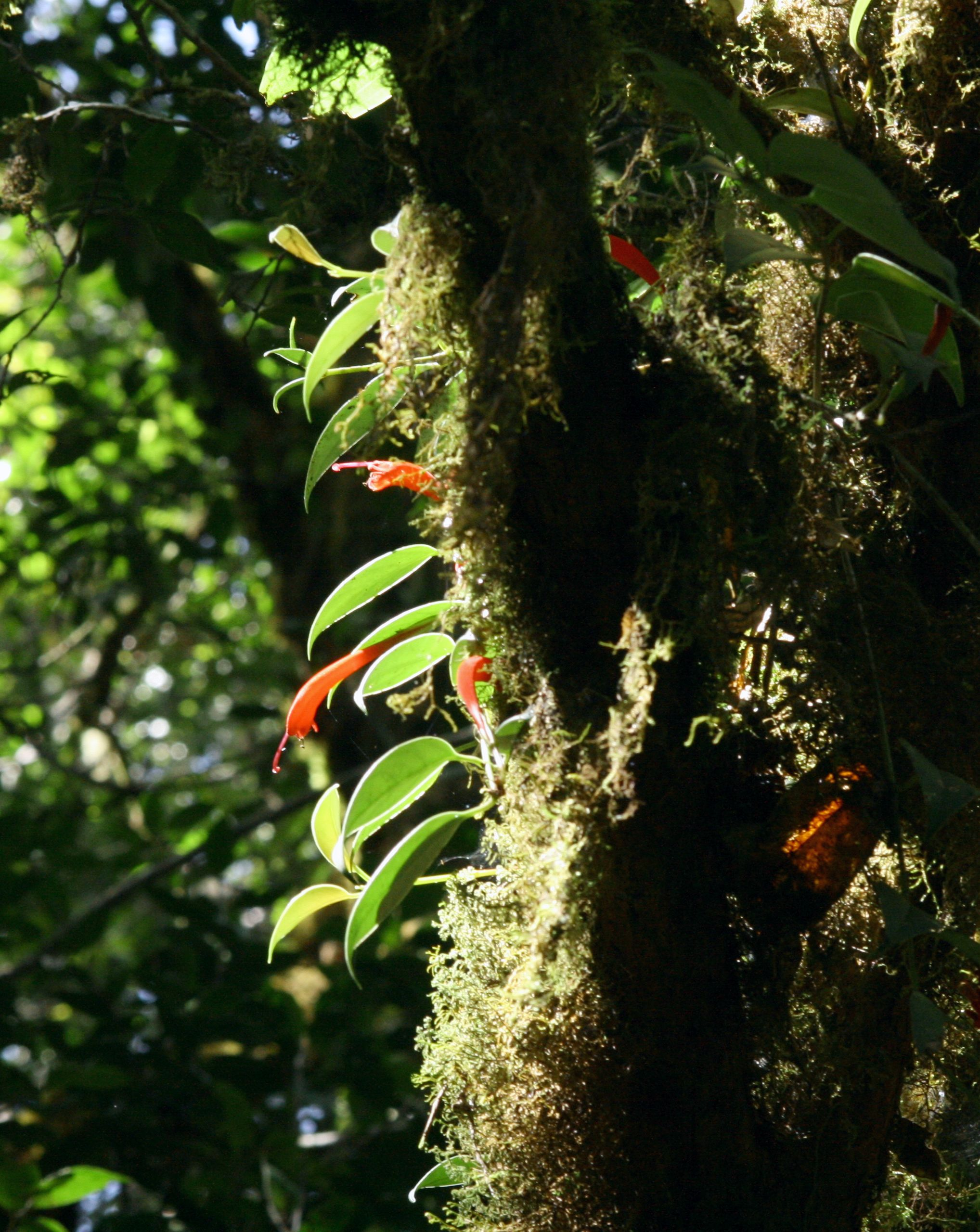 Flowering Aeschynanthus sp. on a tree in montane moss rainforest, Gunung Kemiri, N. Sumatra